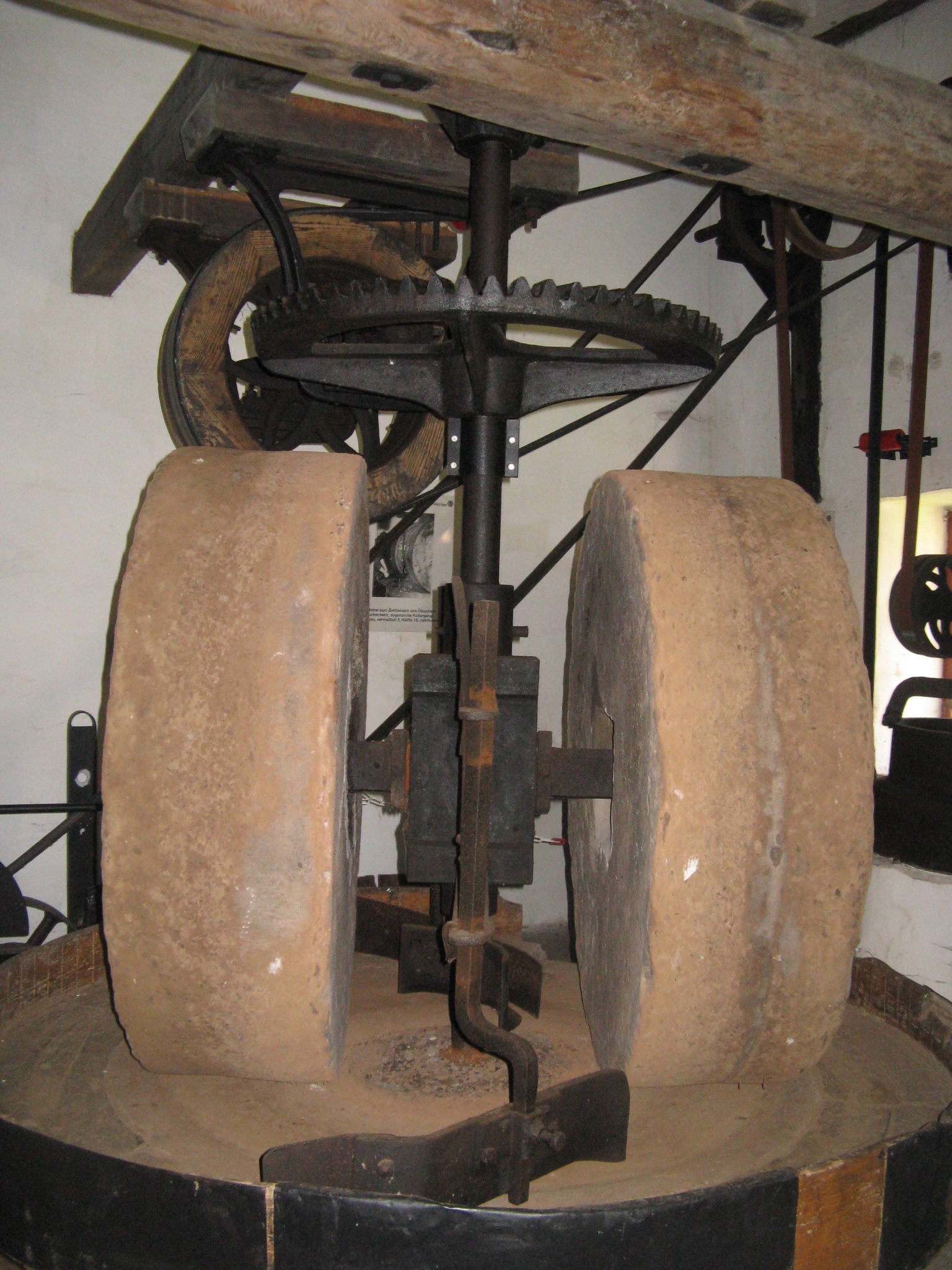 edge mill (1922) at Fürth (Ostertal), Saarland/Germany